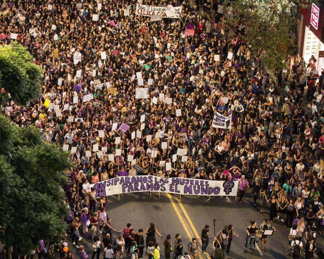 International women's strike in Montevideo (Uruguay), on 8 March 2018.